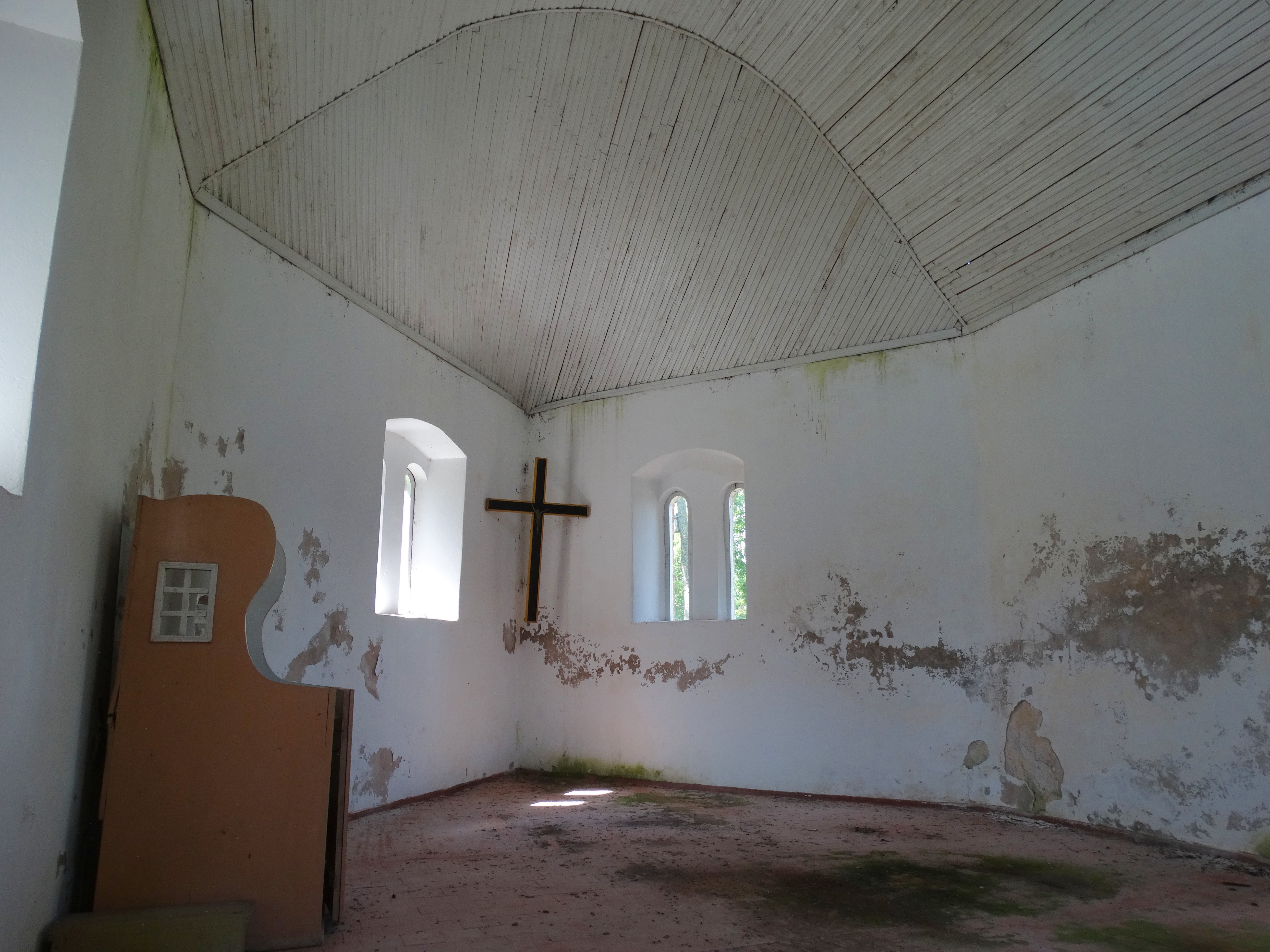 Hillfort chapel (interior) in Pilkalnis, Betygala, Lithuania